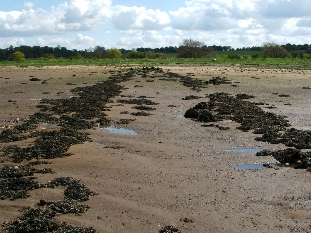 Supposed remains of a Roman causeway